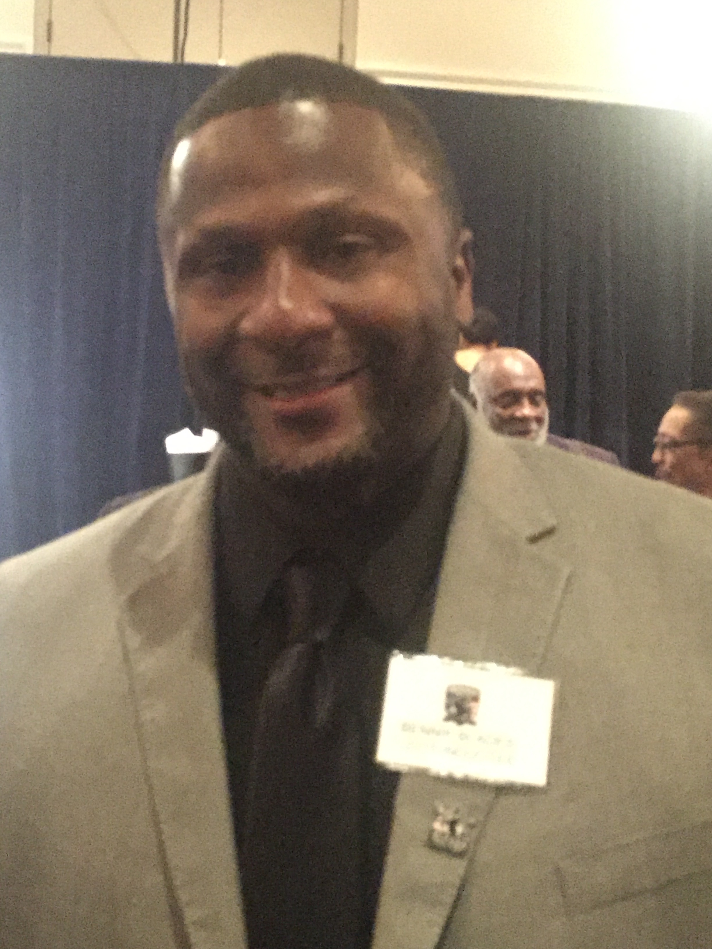 Benie Blades Inducted into the GridIron Greats Hall of Fame 2015